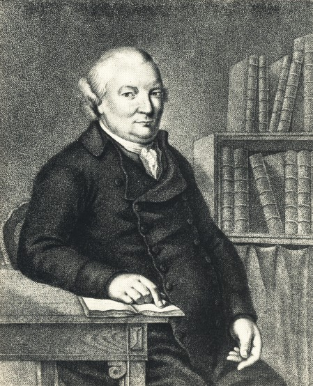 Portrait of Johann Jacob Griesbach